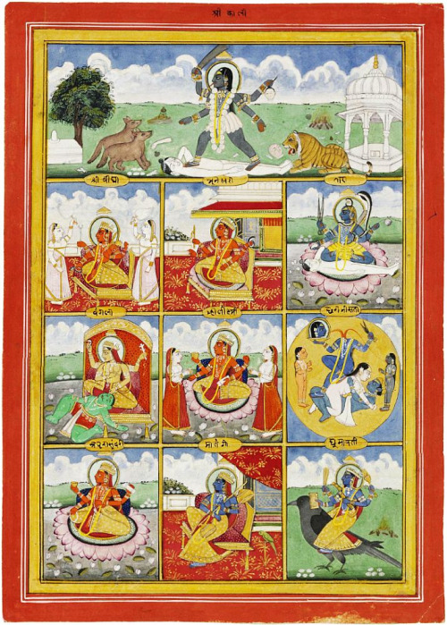 "Dasa Mahavidyas 19th century. Jaipur, India. Gouache heightened with gold on paper. Mahavidyas (Great Wisdoms) or Dasha-Mahavidyas are a group of ten aspects of the Divine Mother Durga or Kali herself or Devi in Hinduism. (via )"